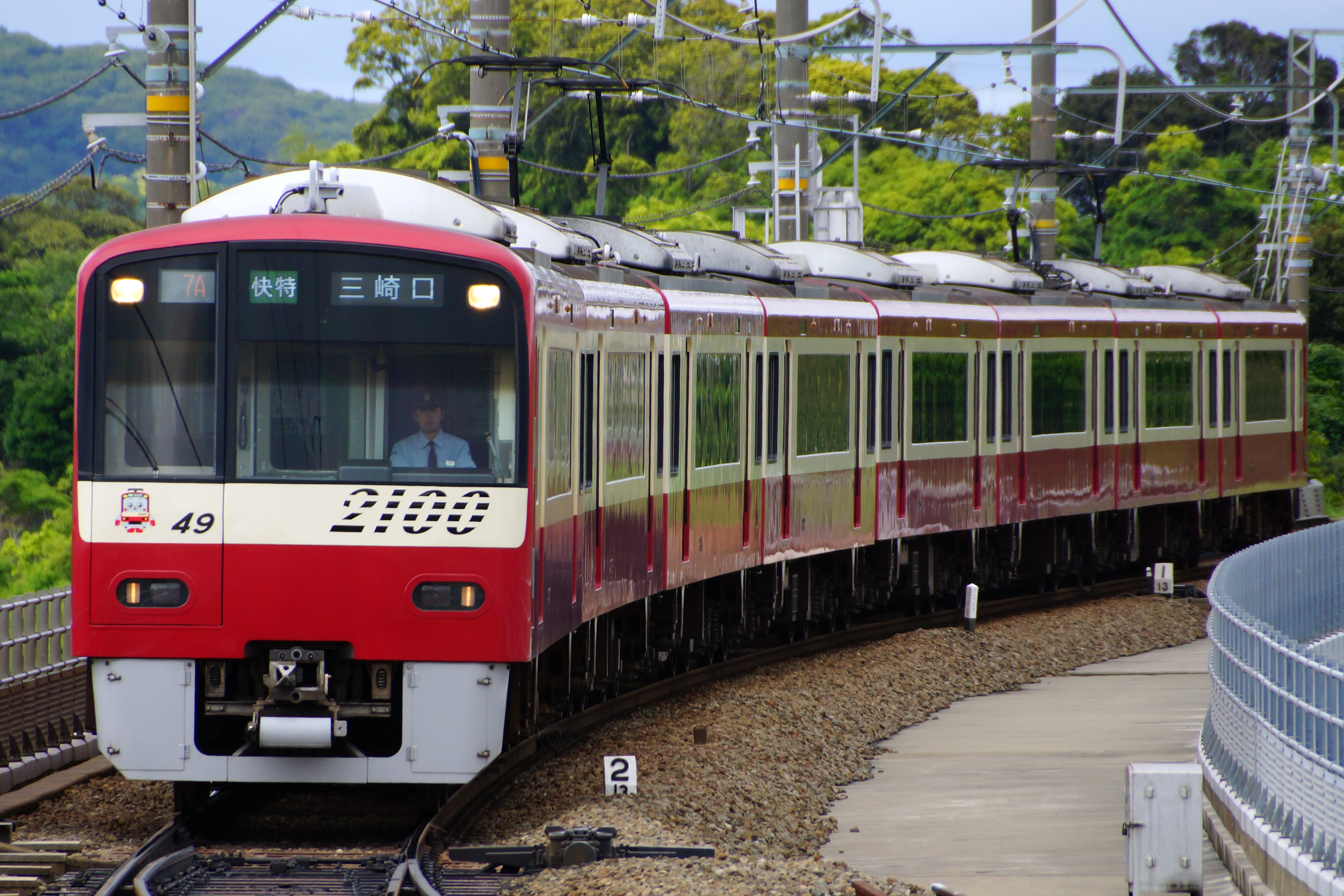 Keikyu 2100 series EMU set 2149 entering Misakiguchi Station